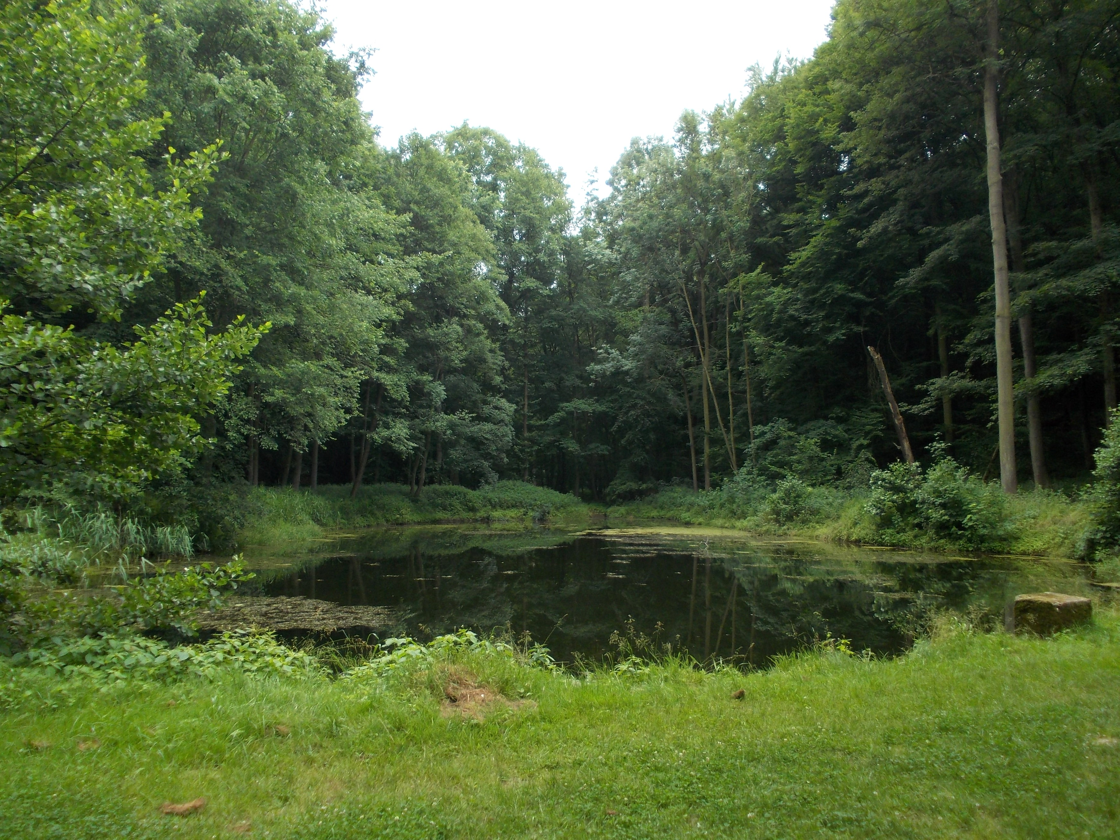 In the valley of Seusslitz (Nünchritz, Meissen district, Saxony), part of the nature reserve "Seusslitzer und Gauernitzer Gründe"